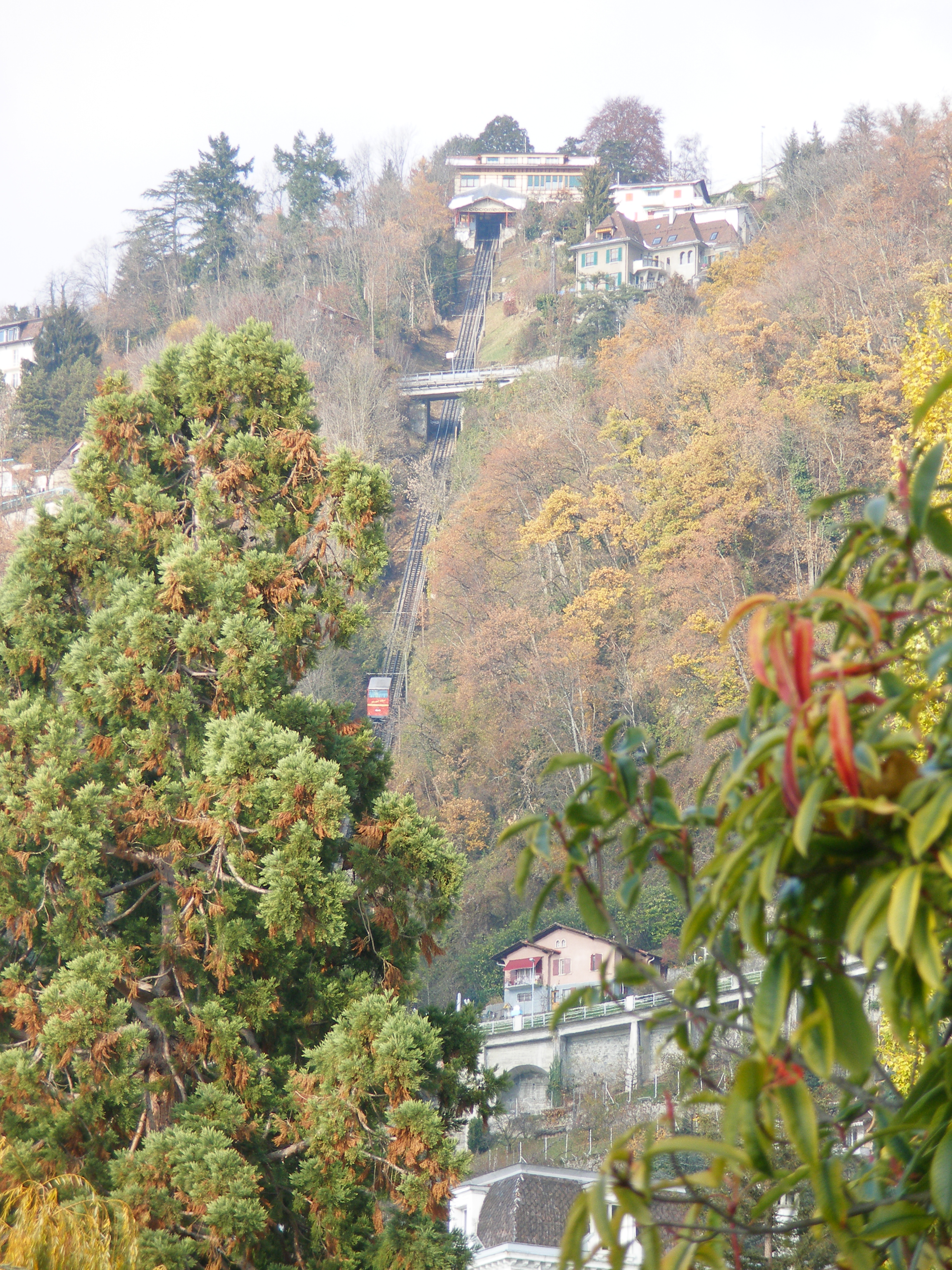 Funicular in Glion, VD, Switzerland